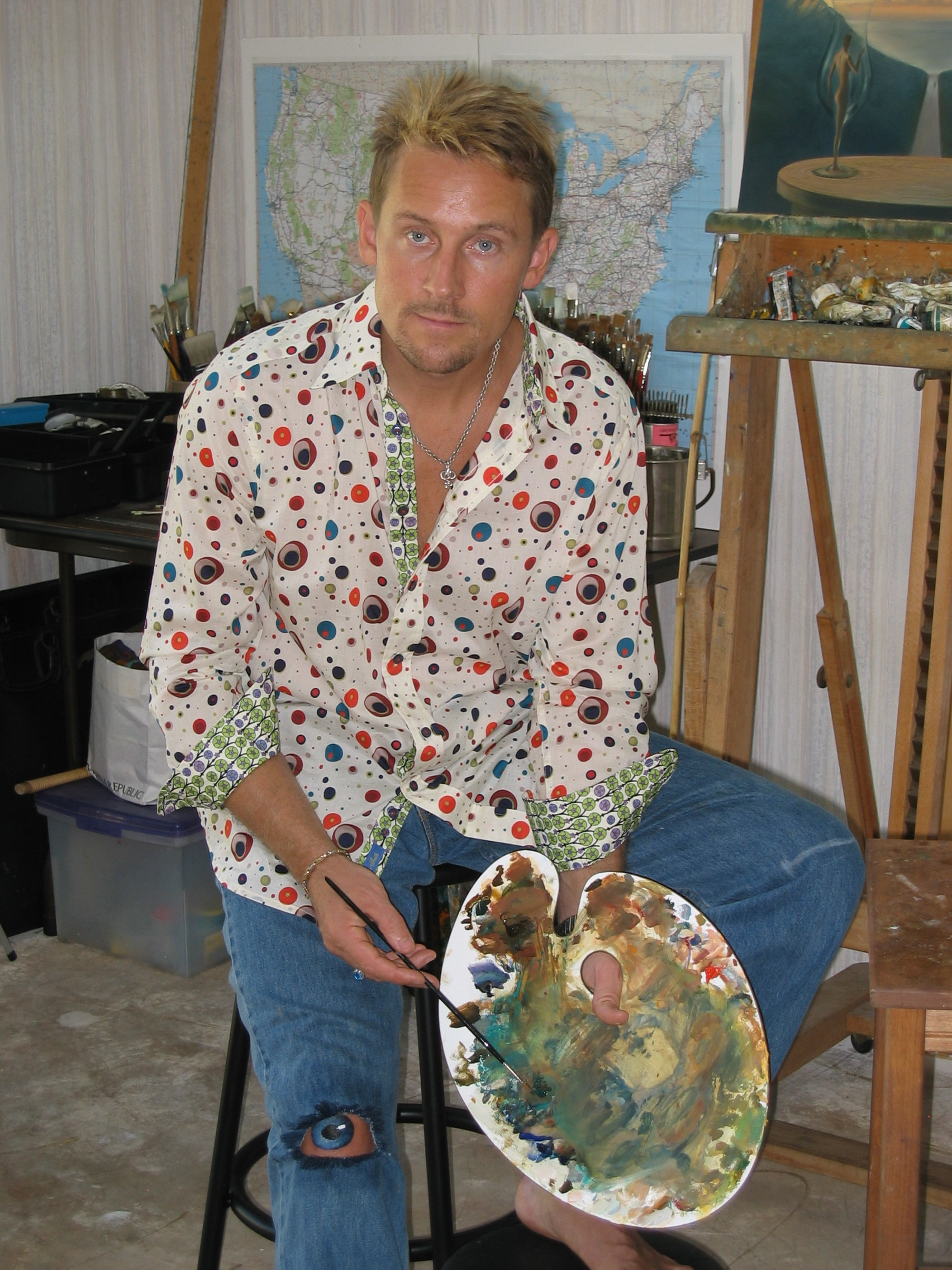 Vladimir Kush, the artist, painting one of his pieces, "To Our Time Together"